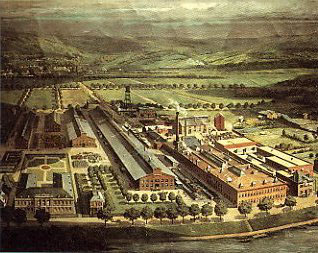 Painting of the Hudson River Aniline Color Works, Rensselaer, NY; today known as the former BASF Rensselaer plant